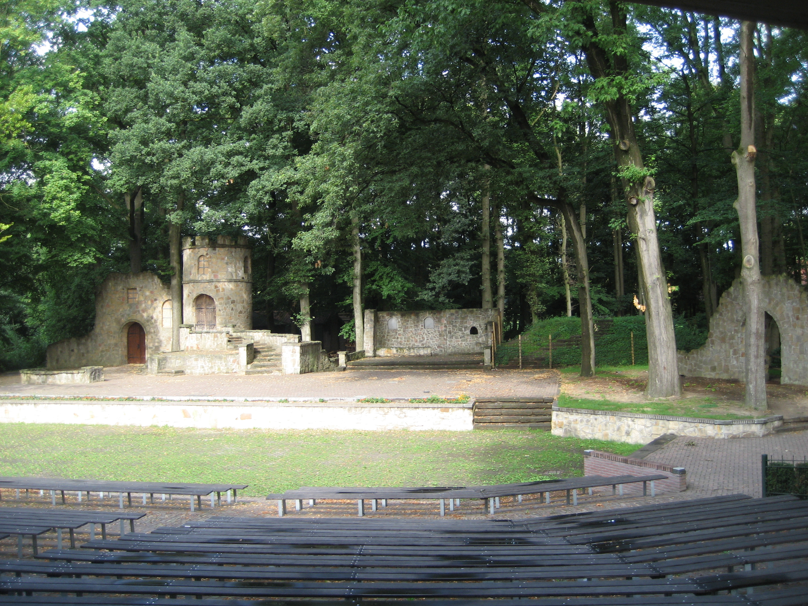 Open air theatre Hertme (The Netherlands) (Openluchttheater)